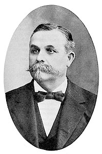 Photograph of James McGranahan taken before he died in 1907. Obtained at .